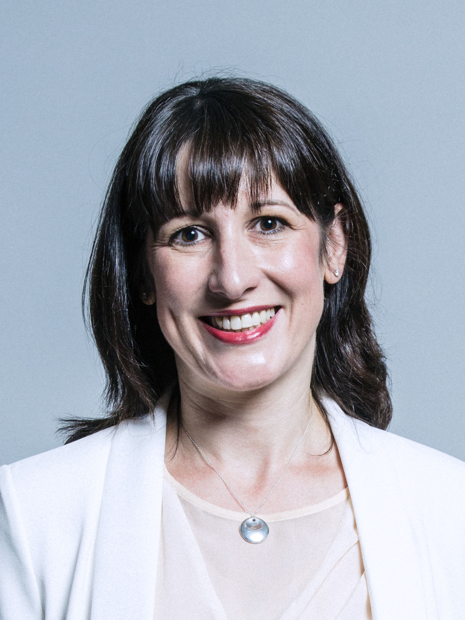 Official portrait of Rachel Reeves